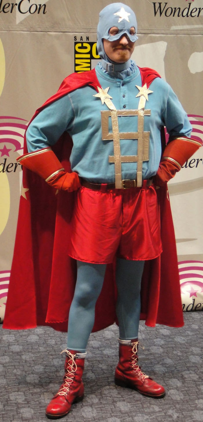 Cosplay of Dollar Bill at WonderCon 2011.